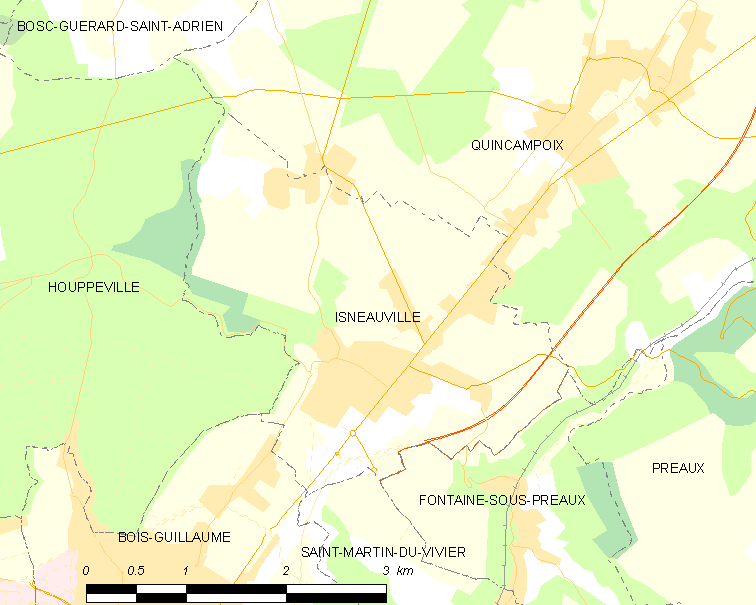 Map of French municipality Isneauville